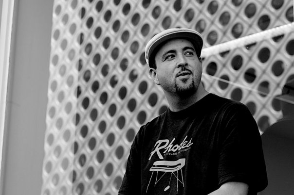 Day (Dj Day), producer and DJ from Palm Springs